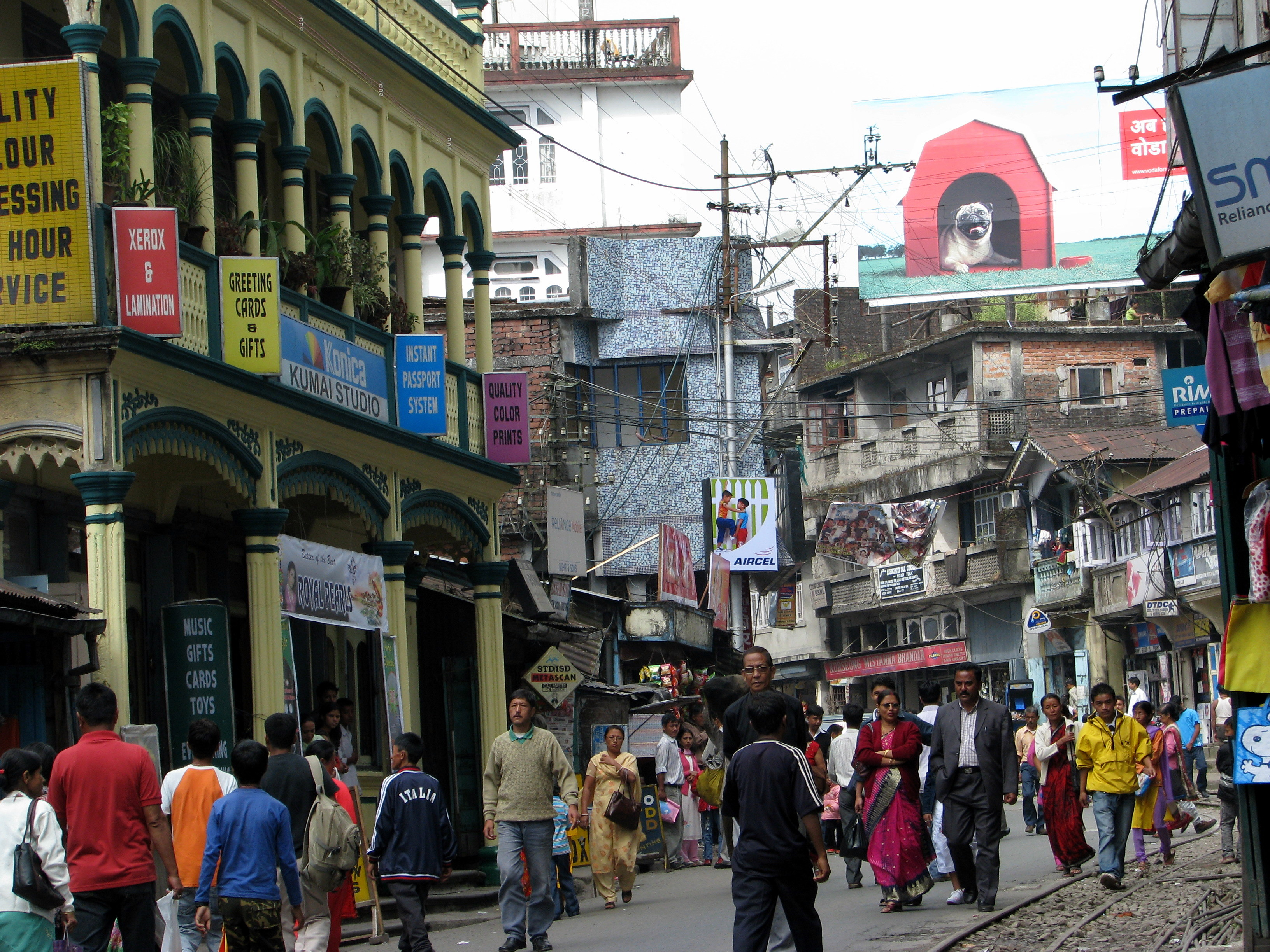 Kurseong.